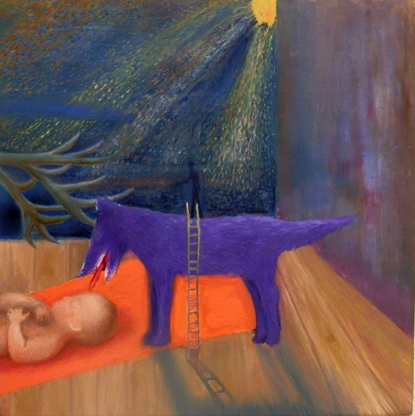 centre panel of triptych oil painting